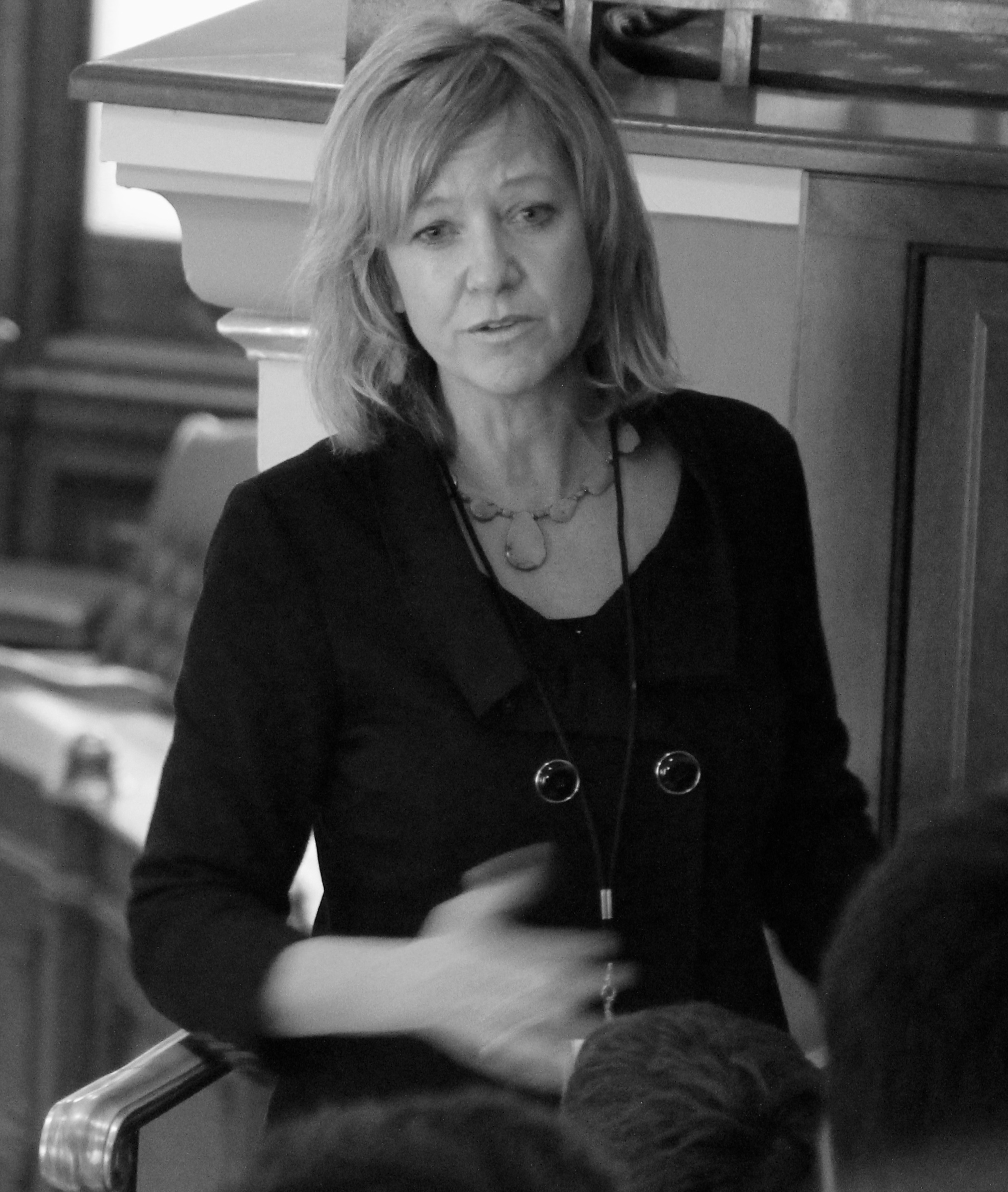 State Representative Jeanne Ives In the well of the House of Representatives at the Illinois Statehouse